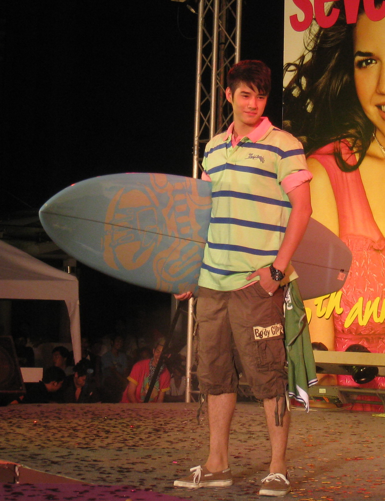 Mario Maurer at 6th anniversary of Seventeen Magazine